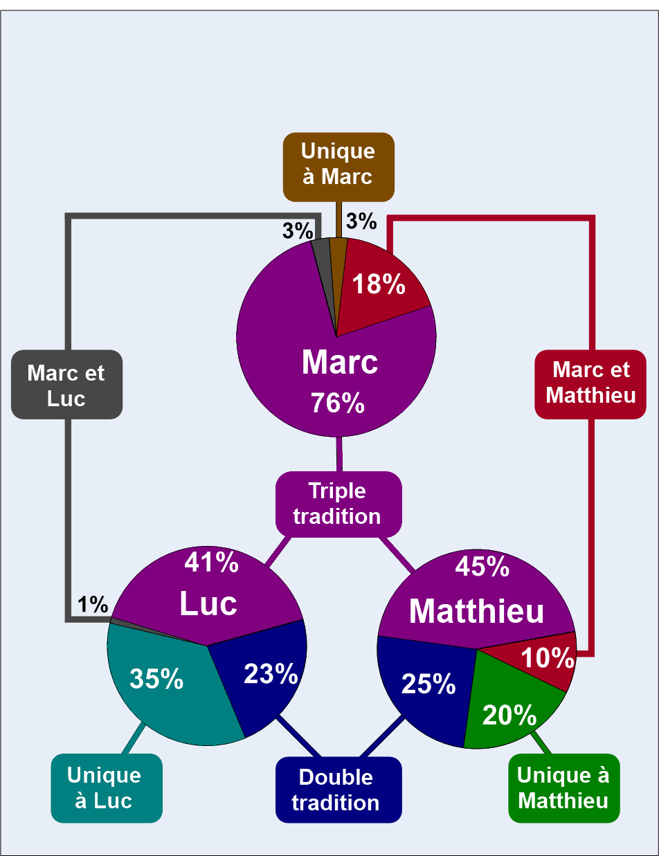 The relationships between the three synoptic gospels. Source: Honoré, A.M. (1986). "A statistical study of the synoptic problem". Novum Testamentum 10 (2/3): 95–147.